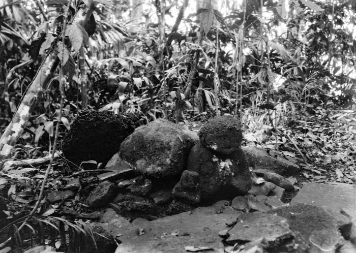 Sculpture near Wijnkoops Bay